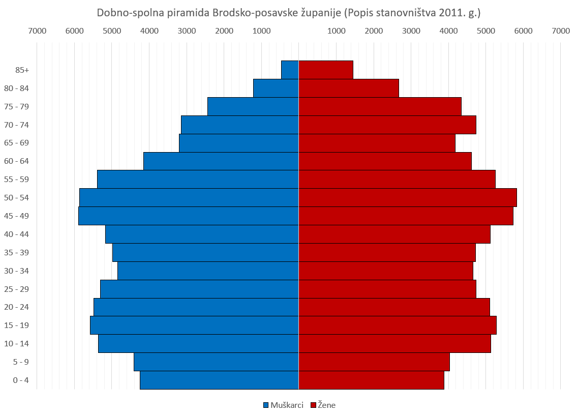 Population pyramid of Slavonski Brod-Posavina County. Version in Croatian. Data from 2011 Census; available at